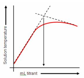 I am the originator of this image I am the originator of this image